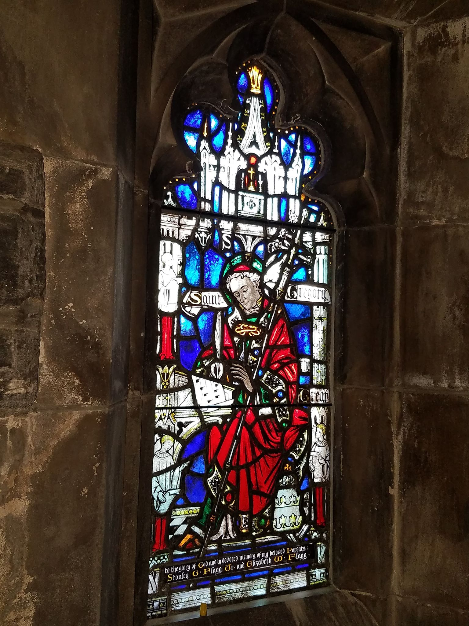 window, St. Gregory the Great, Church of the Good Shepherd (Rosemont, Pennsylvania)